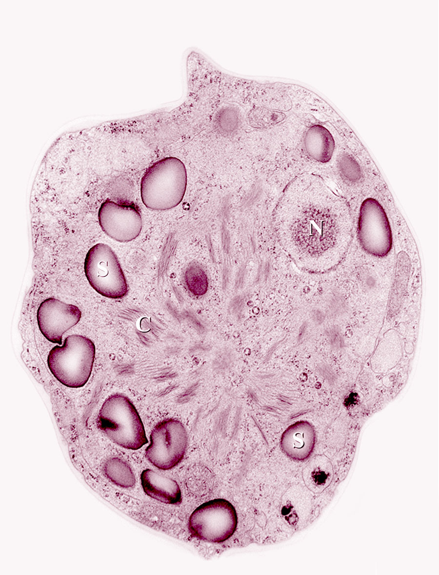 Green algal cell (Chlamydomonas nivalis) responsible for red coloration of mountain snow packs. This organism utilizes pollutants carried in snow as a food source and reduces the acidity of meltwater. Thin section observed using TEM. Magnified 10,000X. (TEM) Plate #.